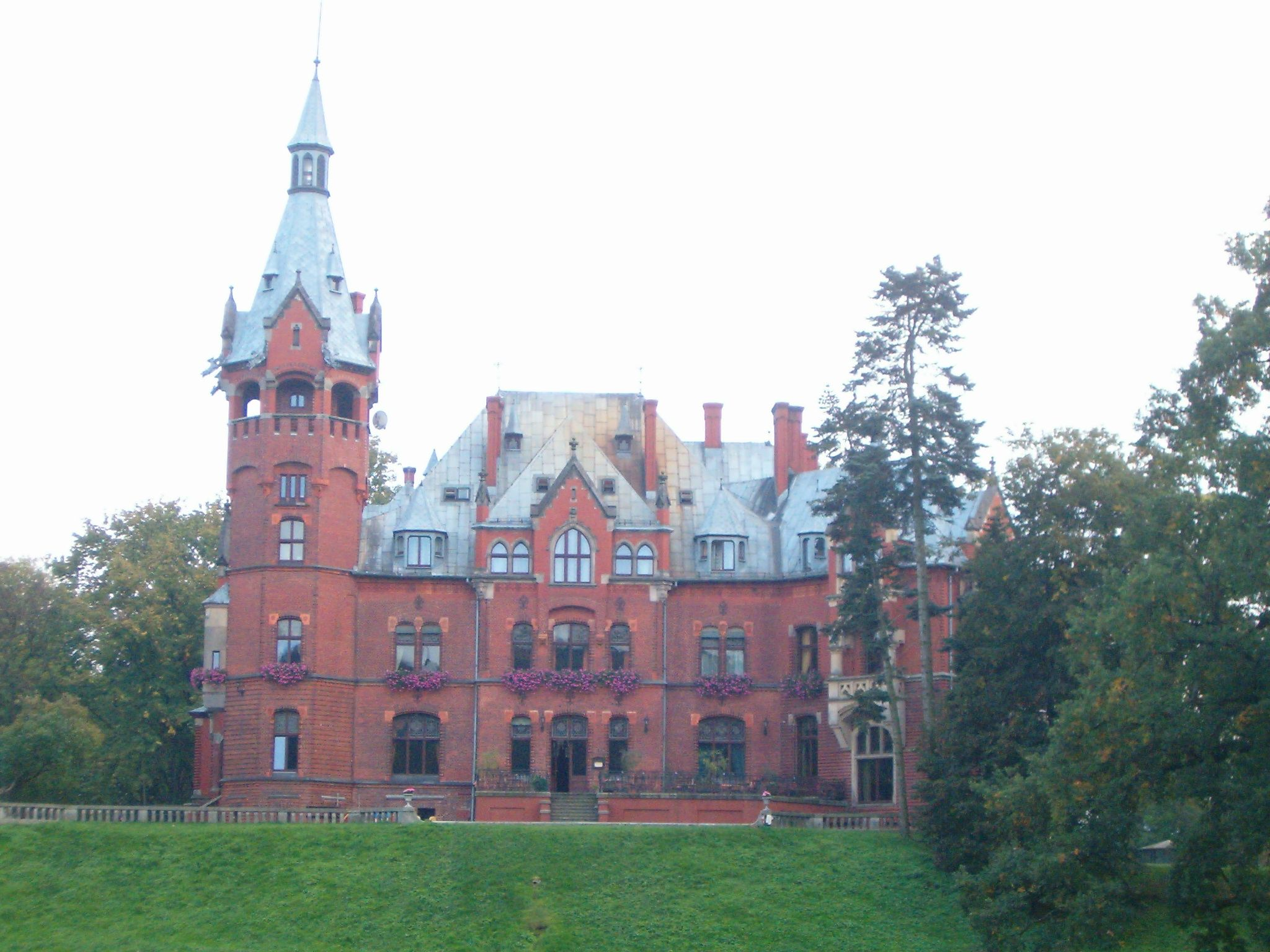 The castle in Wąsowo